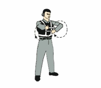 MARSHALLING SIGNALS from a signalman/marshaller to an aircraft / STANDARD EMERGENCY HAND SIGNALS. Description: "Move back". With arms in front of body at waist height, rotate arms in a forward motion. To stop rearward movement, use signal 6(a) or 6(b).